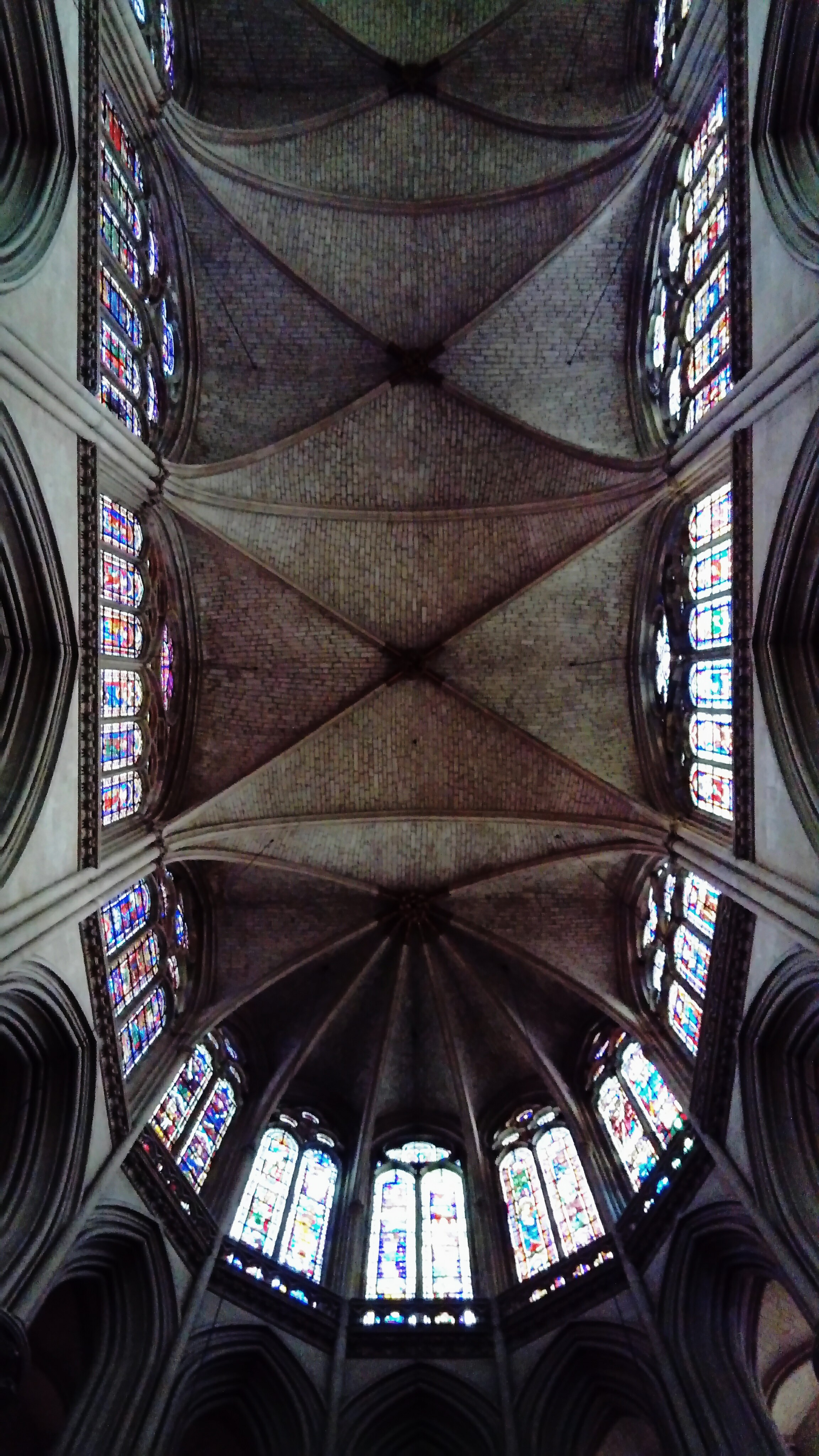 Gothic vault and stained-glass windows seen from inside the Le Mans Cathedral in France.